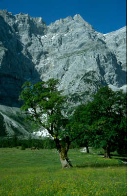 Kaltwasserkarspitze, 2733 m, from northeast (Kleiner Ahornboden), Karwendelgebirge/Tirol